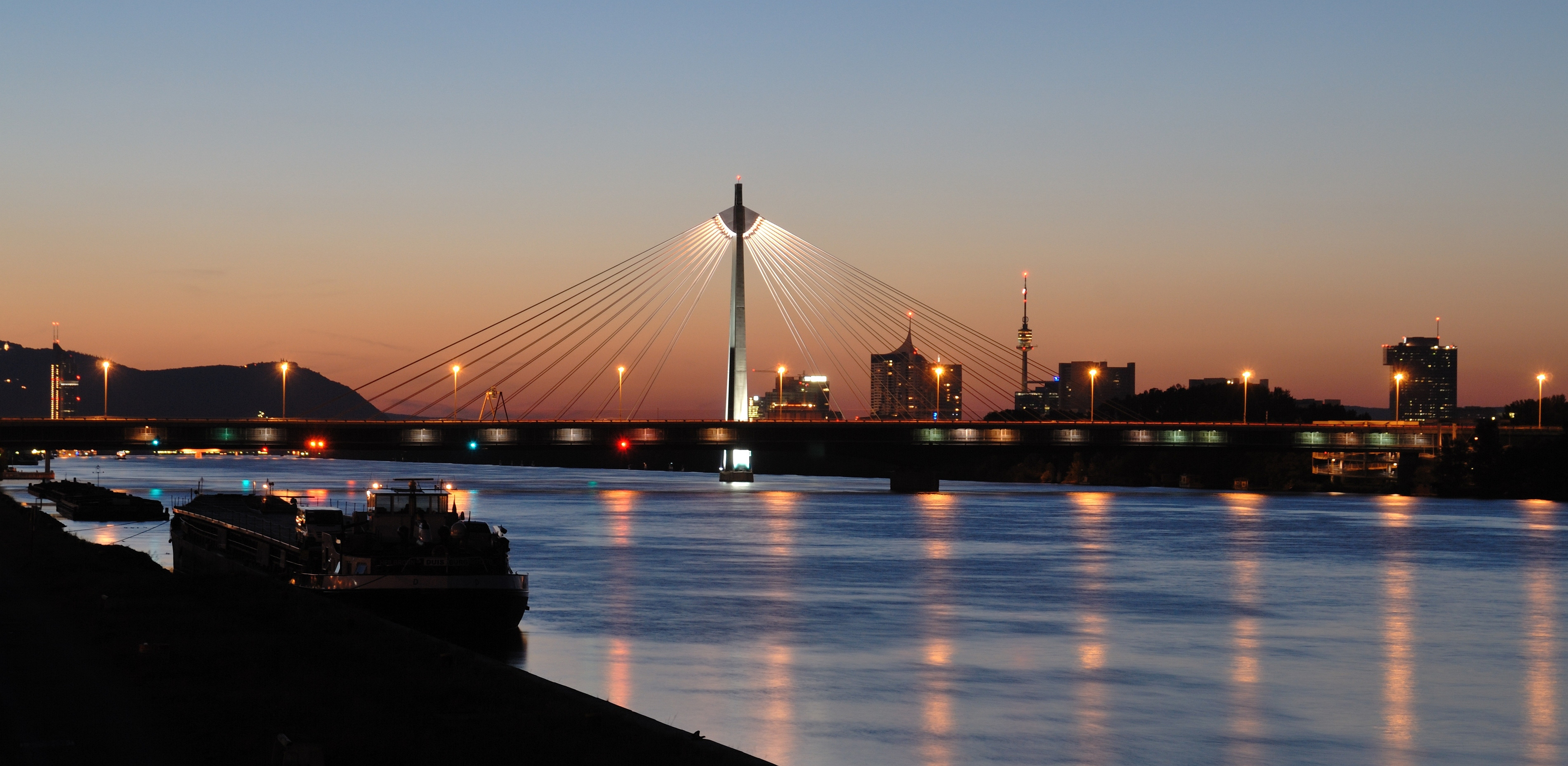 Praterbrücke and Donaustadtbrücke seen from Stadlauer Ostbahnbrücke.